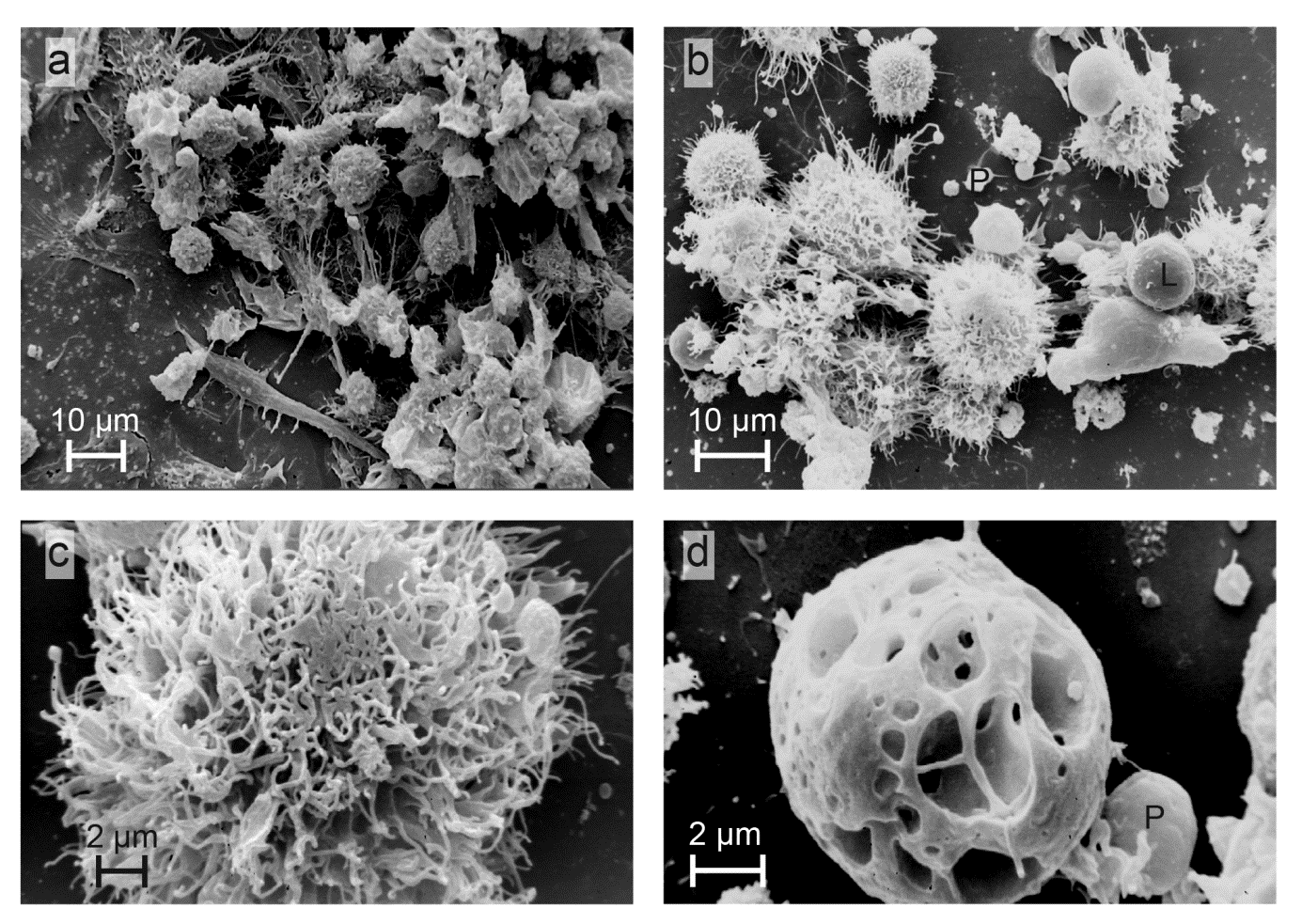 Ultrastructural characteristics of mature and apoptotic/necrotic myeloid DCs investigated by SEM. Figs. 6a and b show clusters of mature DCs with numerous microvillus-like cell projections. Adhesion of lymphocytes (L) and platelets (P) is visible in Fig. 6b. In Fig. 6a, still some immature DCs with long cell projections are visible. Fig. 6c shows abundant cell projections as a sign of beginning degeneration, distinctly pronounced in Fig. 6d.